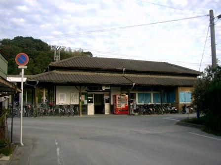 Watase Station on JR Kyushu Kagoshima Main Line